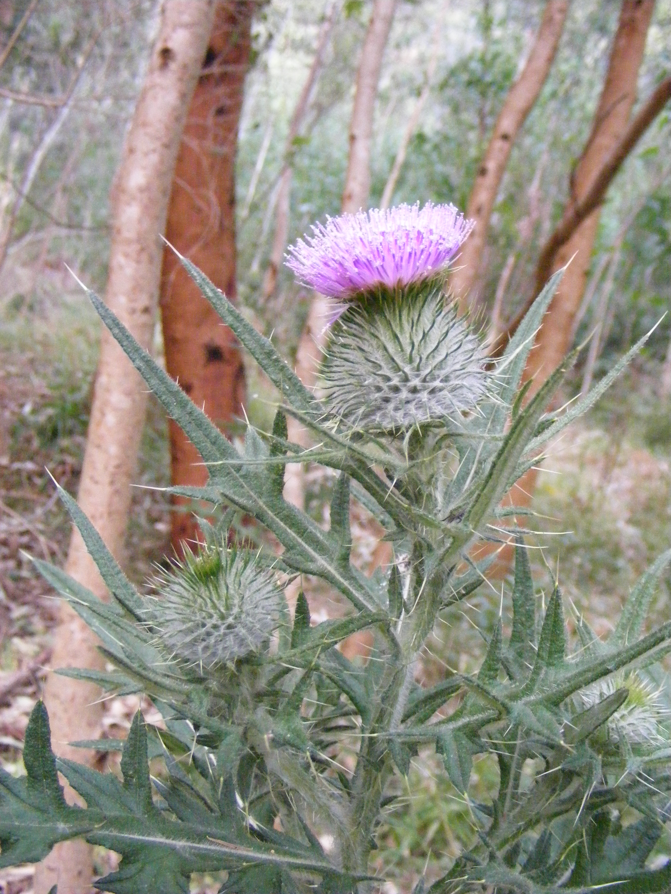 Spear Thistle Cirsium vulgare on the banks of the River Torrens, just upstream of the first water holding weir. Near Athelstone, Adelaide South Australia